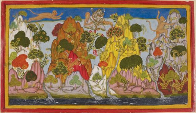 The monkey Hanuman carries a herb mountain